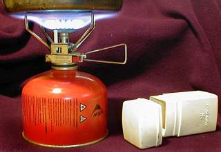 A small Snow Peak portable stove running on MSR gas and its container.